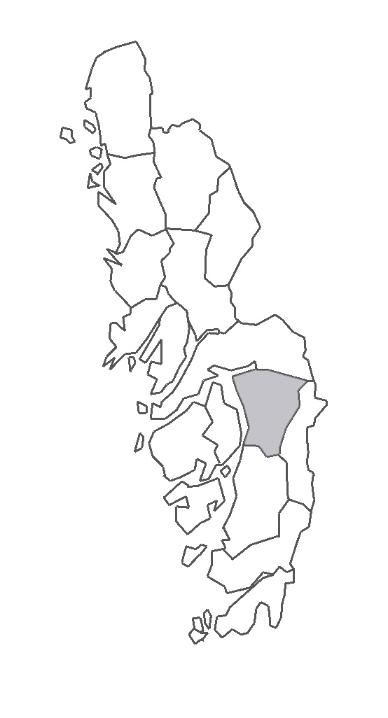 Map describing the location of Inland Fräkne Hundred in Bohuslän Province, Sweden.